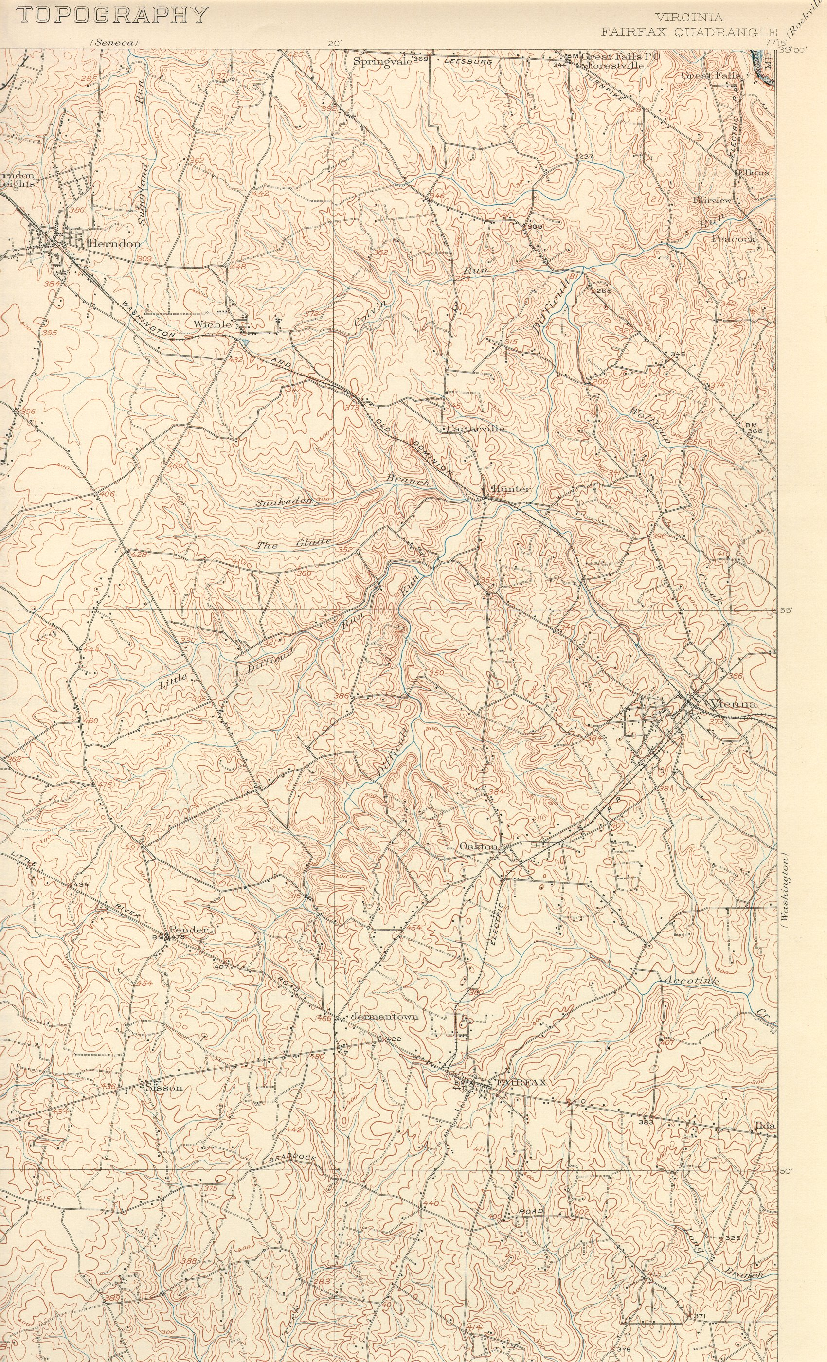 1915 United States Geological Survey map of Fairfax and Vienna Virginia (Topography: Virginia: Fairfax Quadrangle)